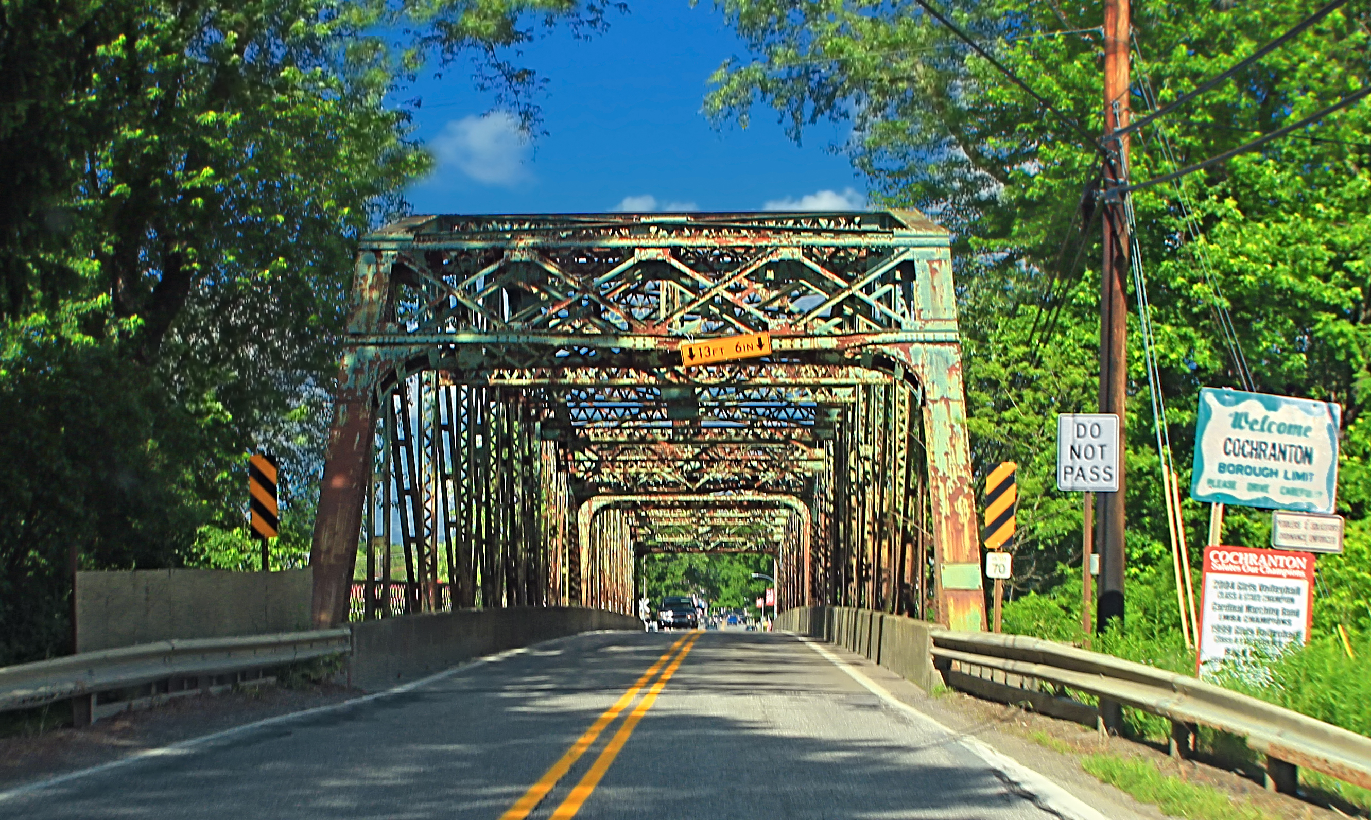 PA Route 173 (Adams Street) truss bridge over French Creek, borough of Cochranton, Crawford County.